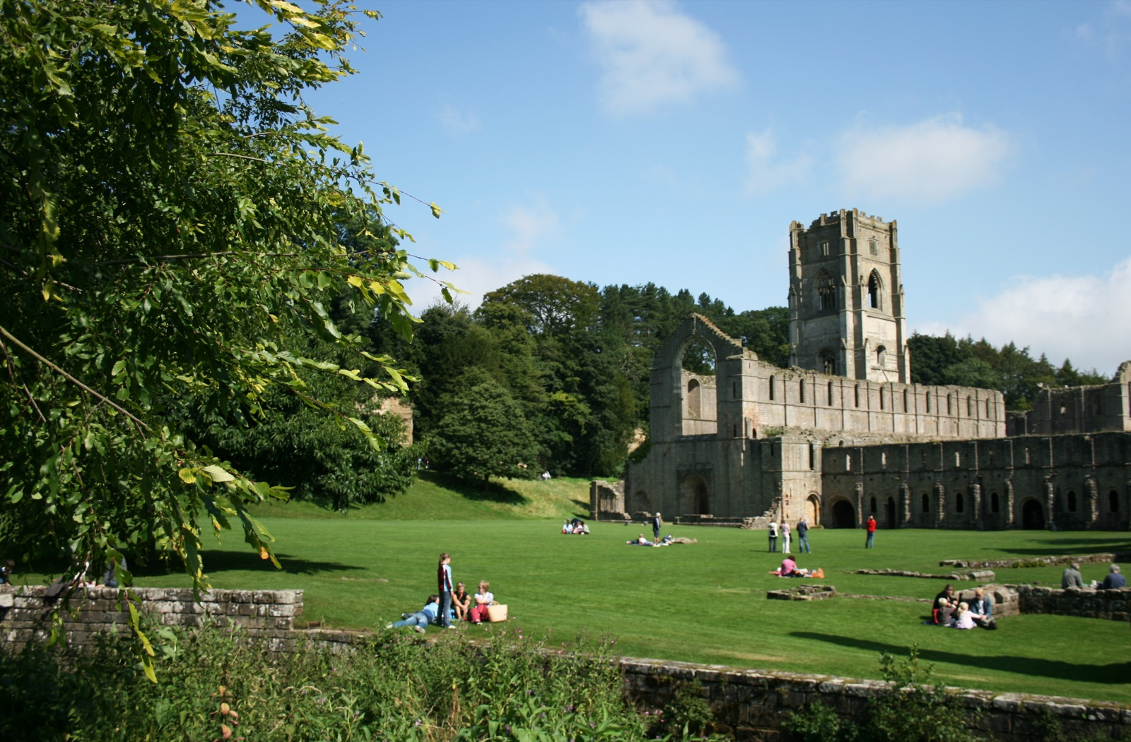 Fountains Abbey, Ripon, North Yorkshire, Great Britain.